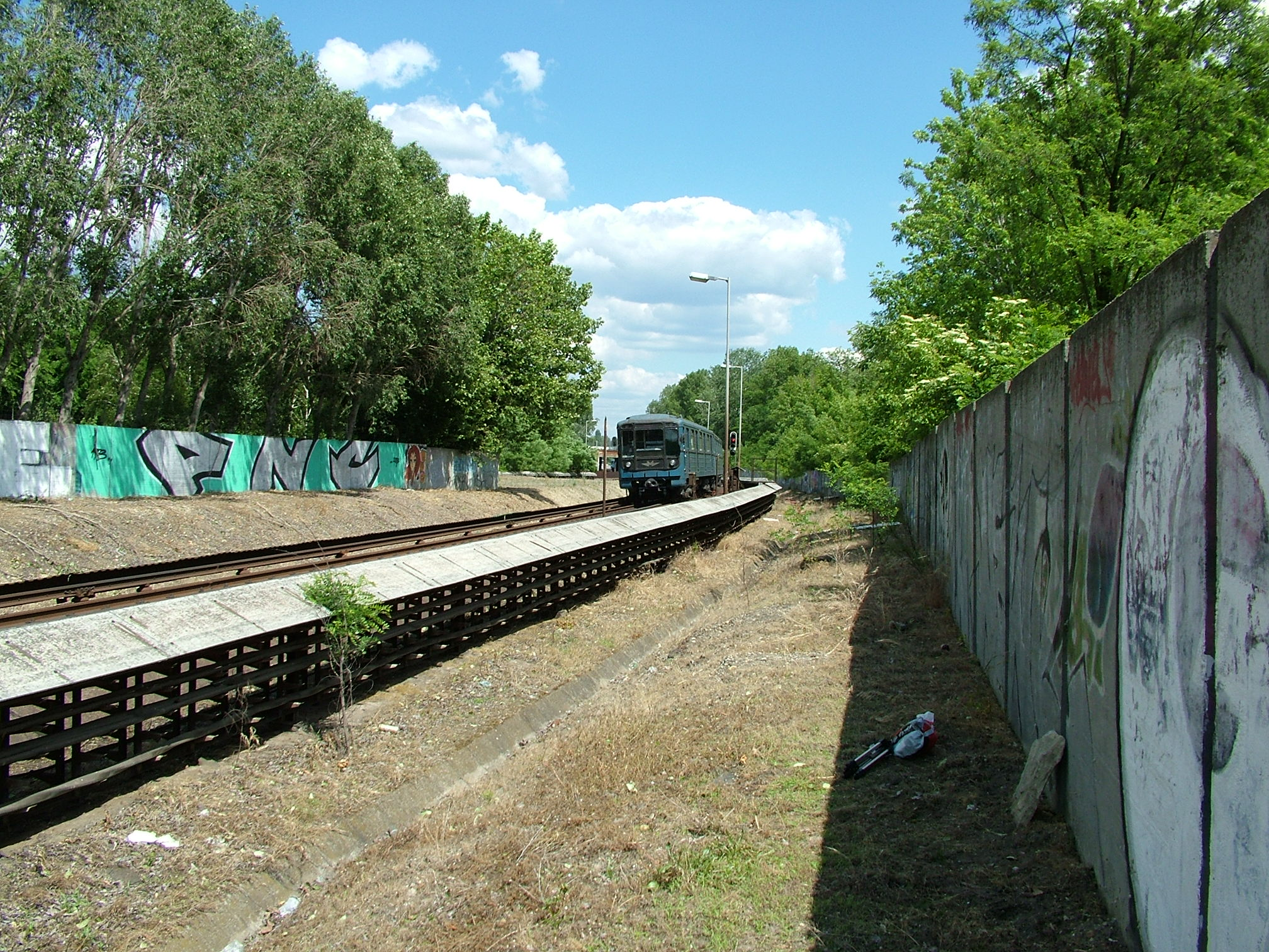 81-717 type train See other pictures: metros.hu